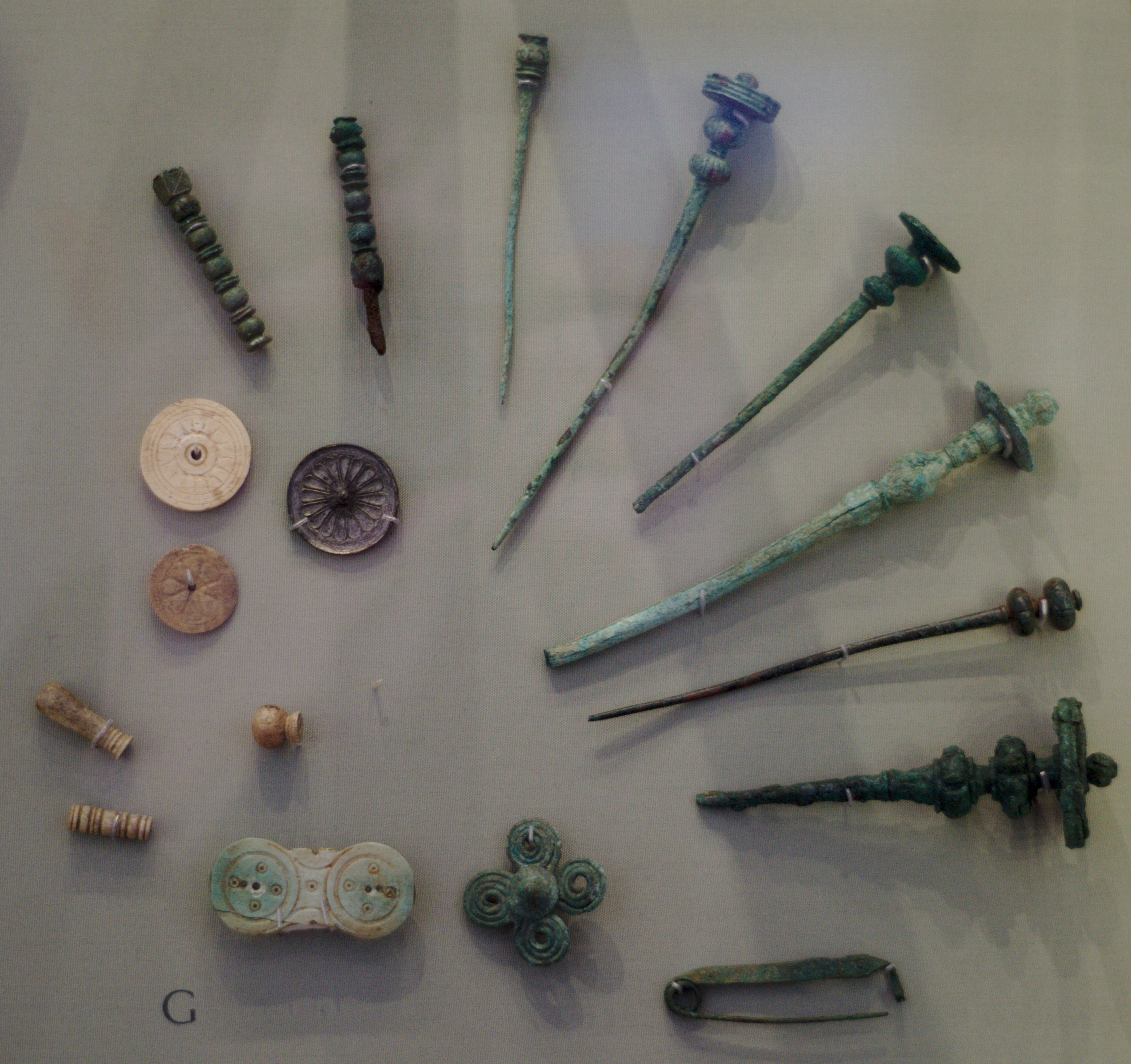 A collection of bronze, silver, and bone dress pins and brooches found at the sanctuary of Artemis Orthia, dating from between 800 and 600 BC. On display in the Fitzwilliam Museum, Cambridge.